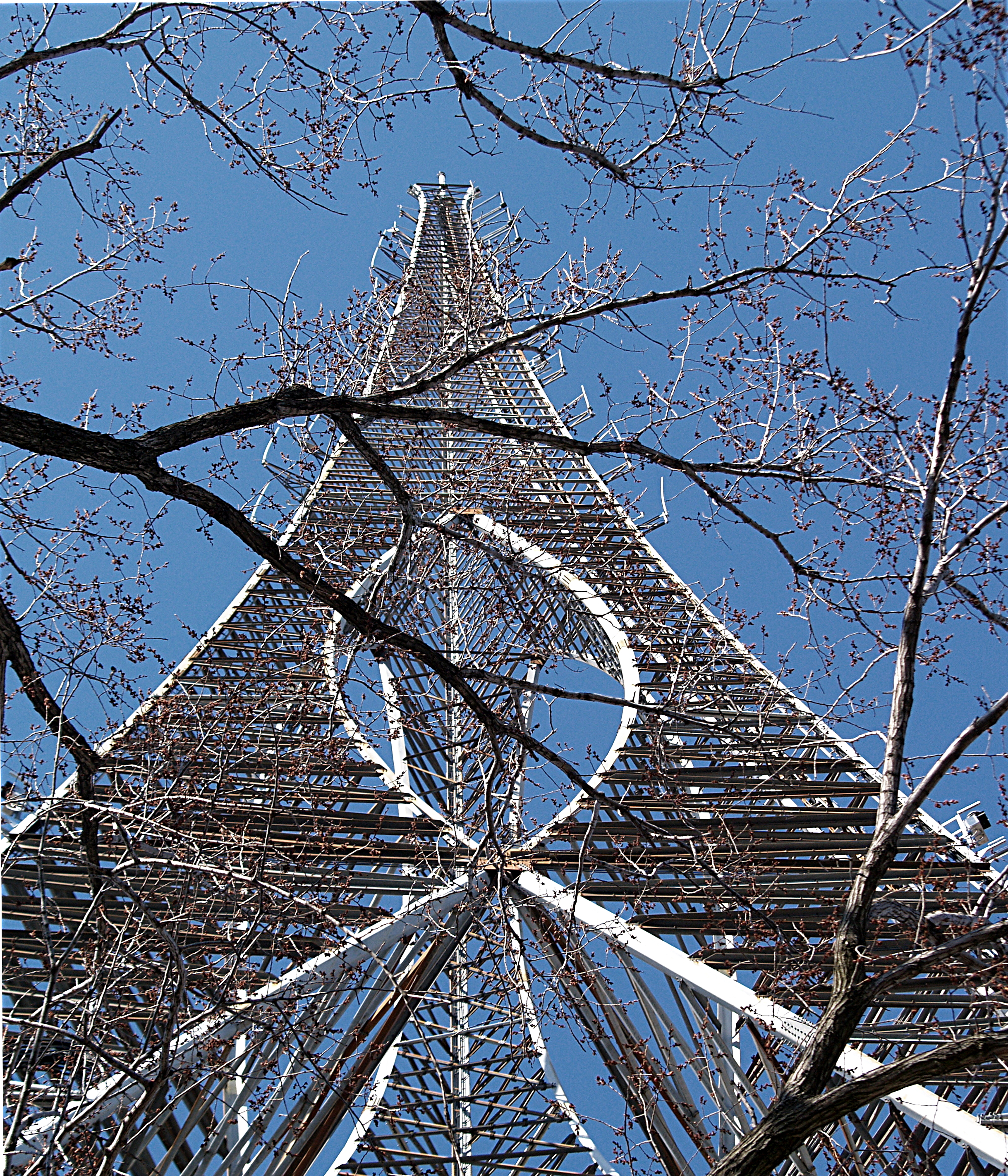 The Hughes Memorial Radio Tower in the Brightwood neighborhood of Washington, DC.